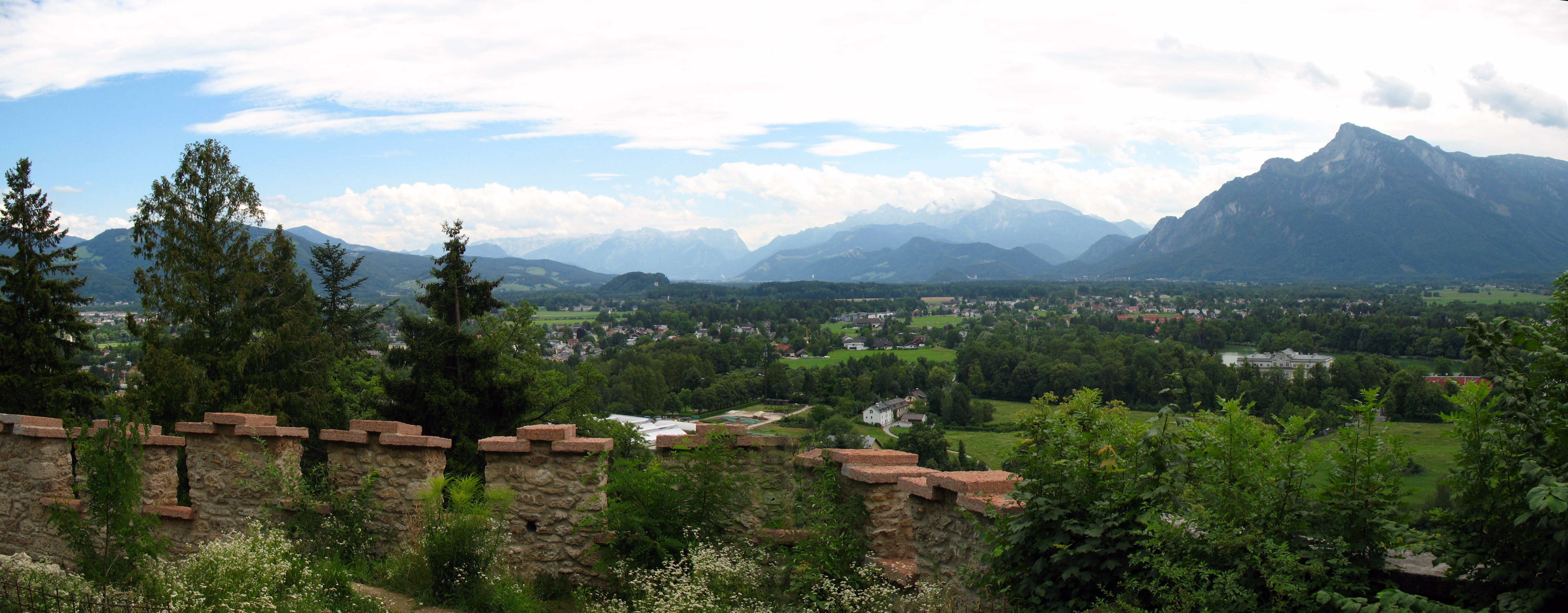 View from Richterhöhe on Monk Hill, Salzburg, Austria